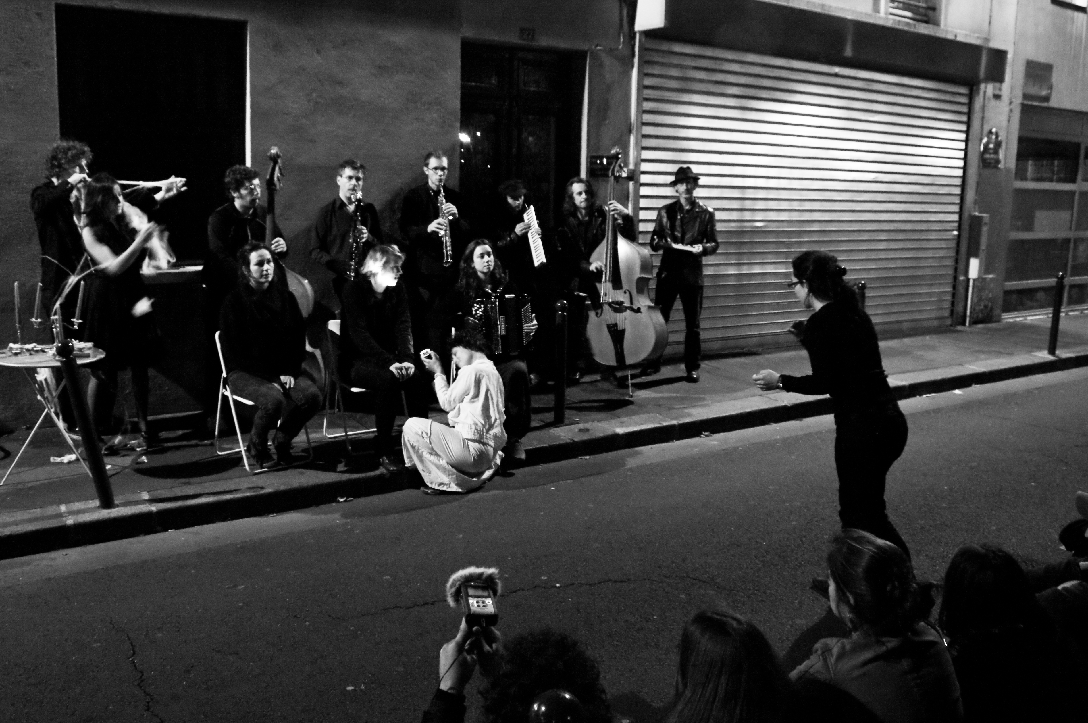 02/10/10 - Soundpainting: live improvised composition performance by Trafic on rue de la Forge Royal, Paris 11e Credits by James Mulholland.